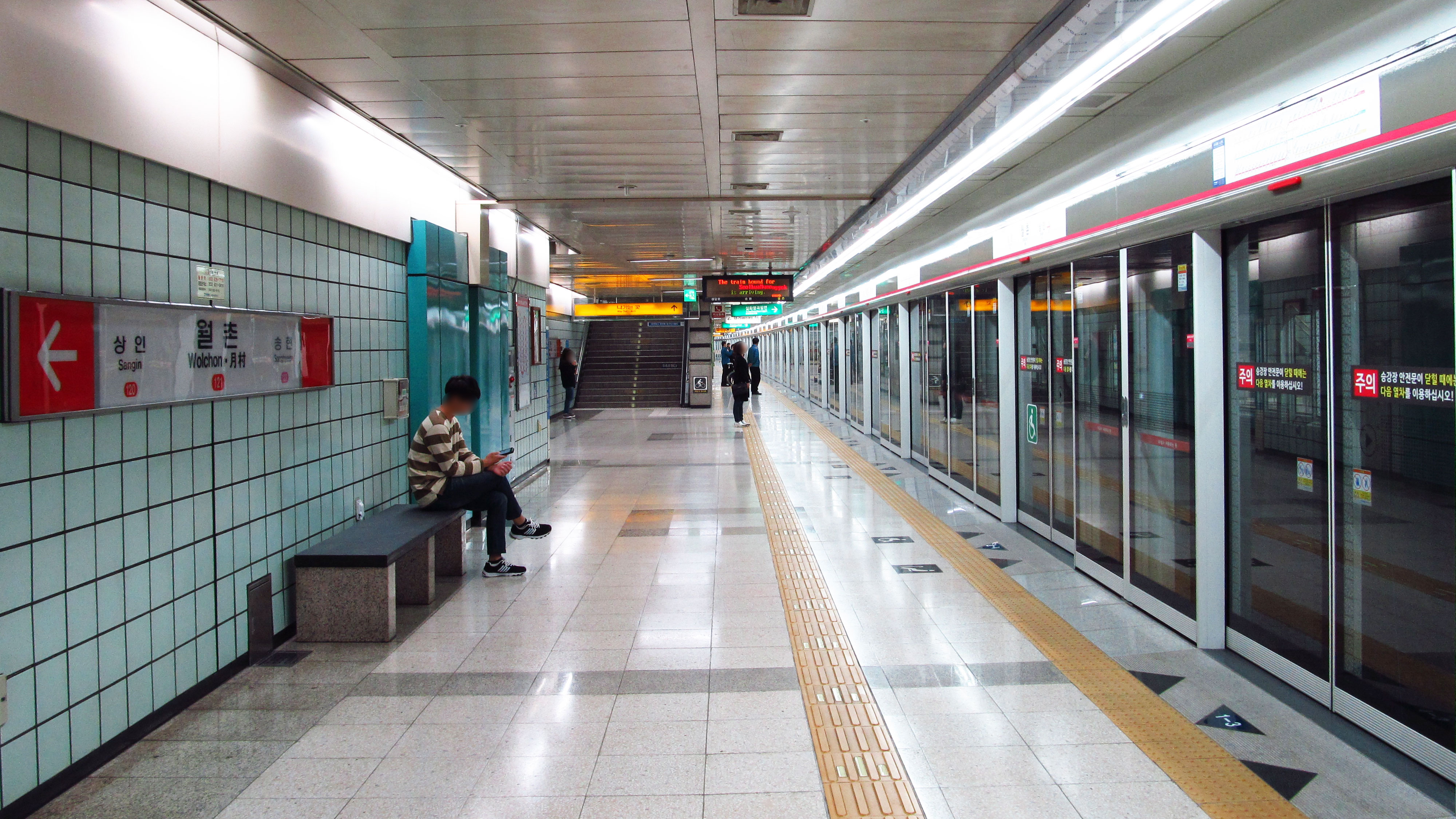 The platform of Wolchon Station on the Daegu Metro Line 1, for Sangin, Seolhwa-Myeonggok